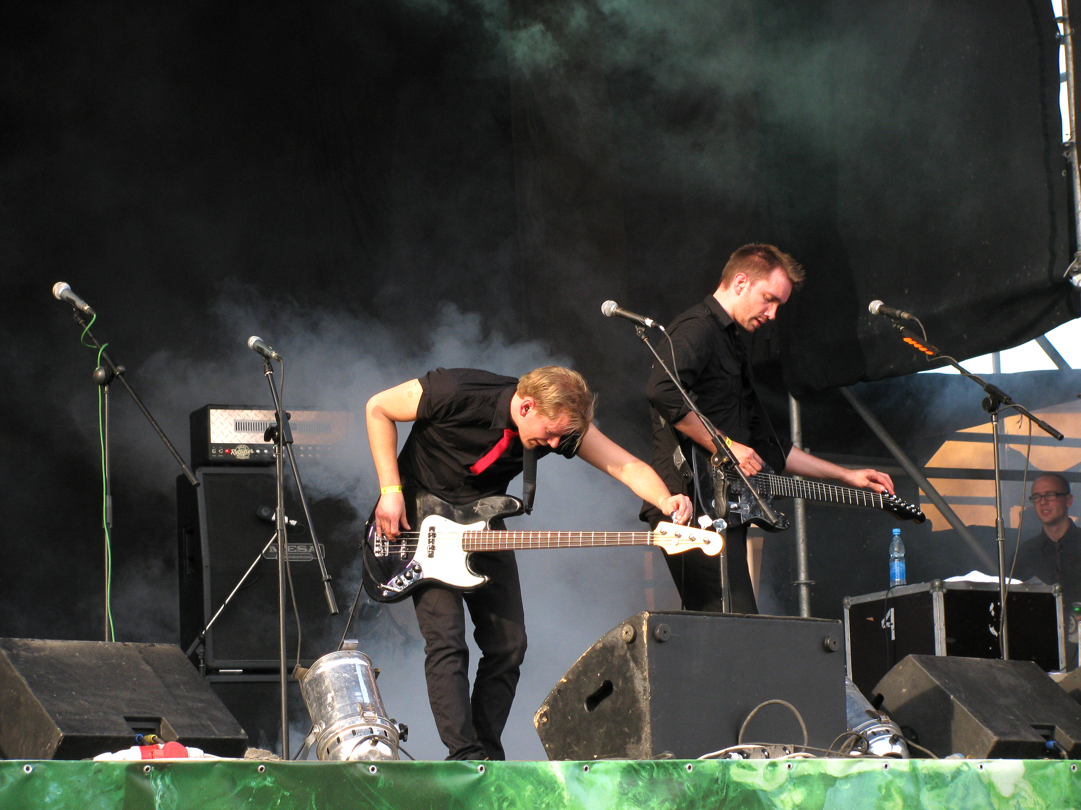 Diablo Swing Orchestra playing at Global East Rock Festival 2010